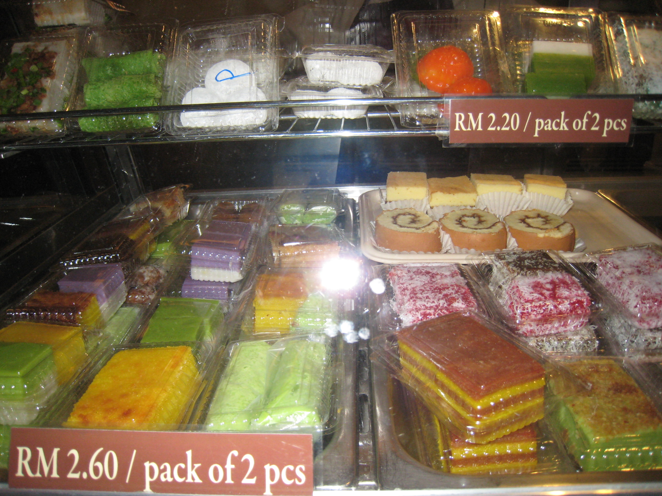 Malaysian cakes